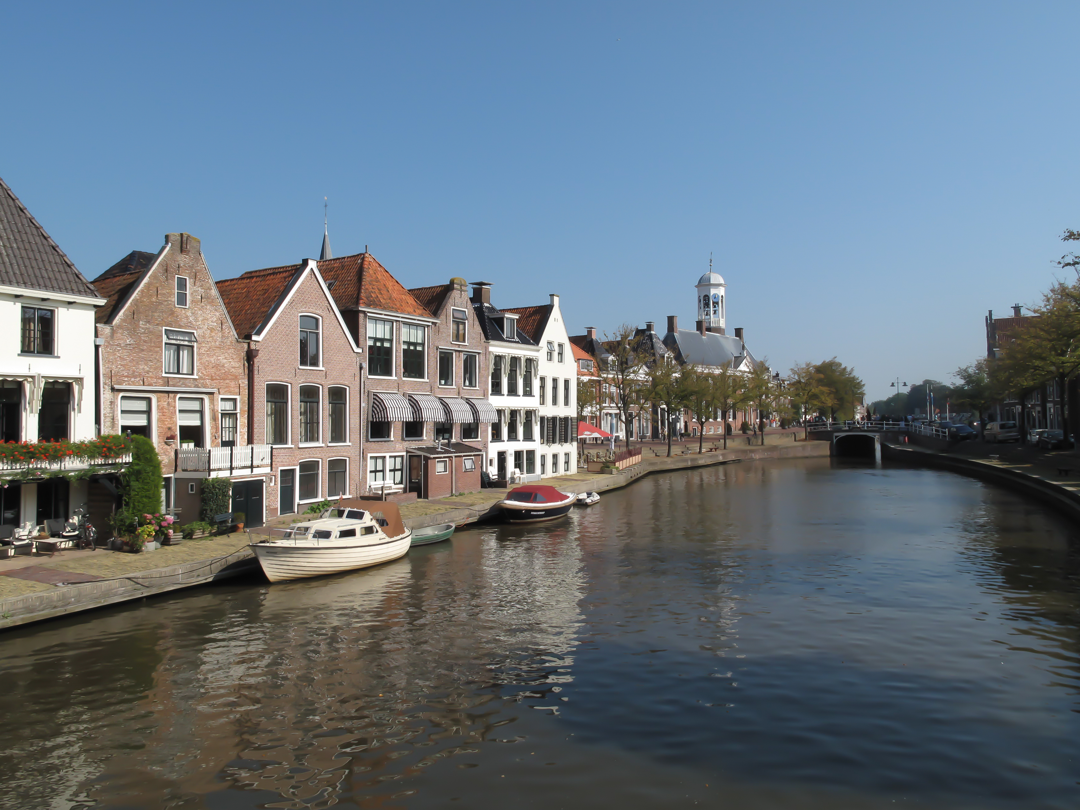 Dokkum, monumental buildings in port